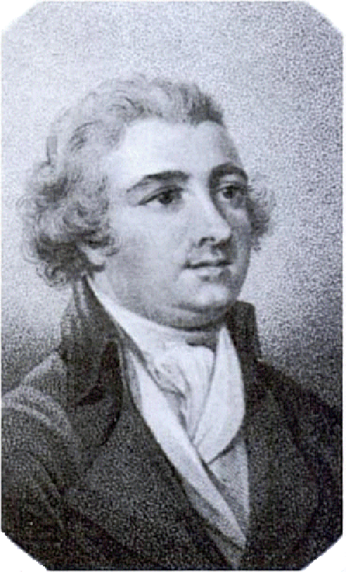 Portrait of Charles Murray, Scottish actor and dramatist